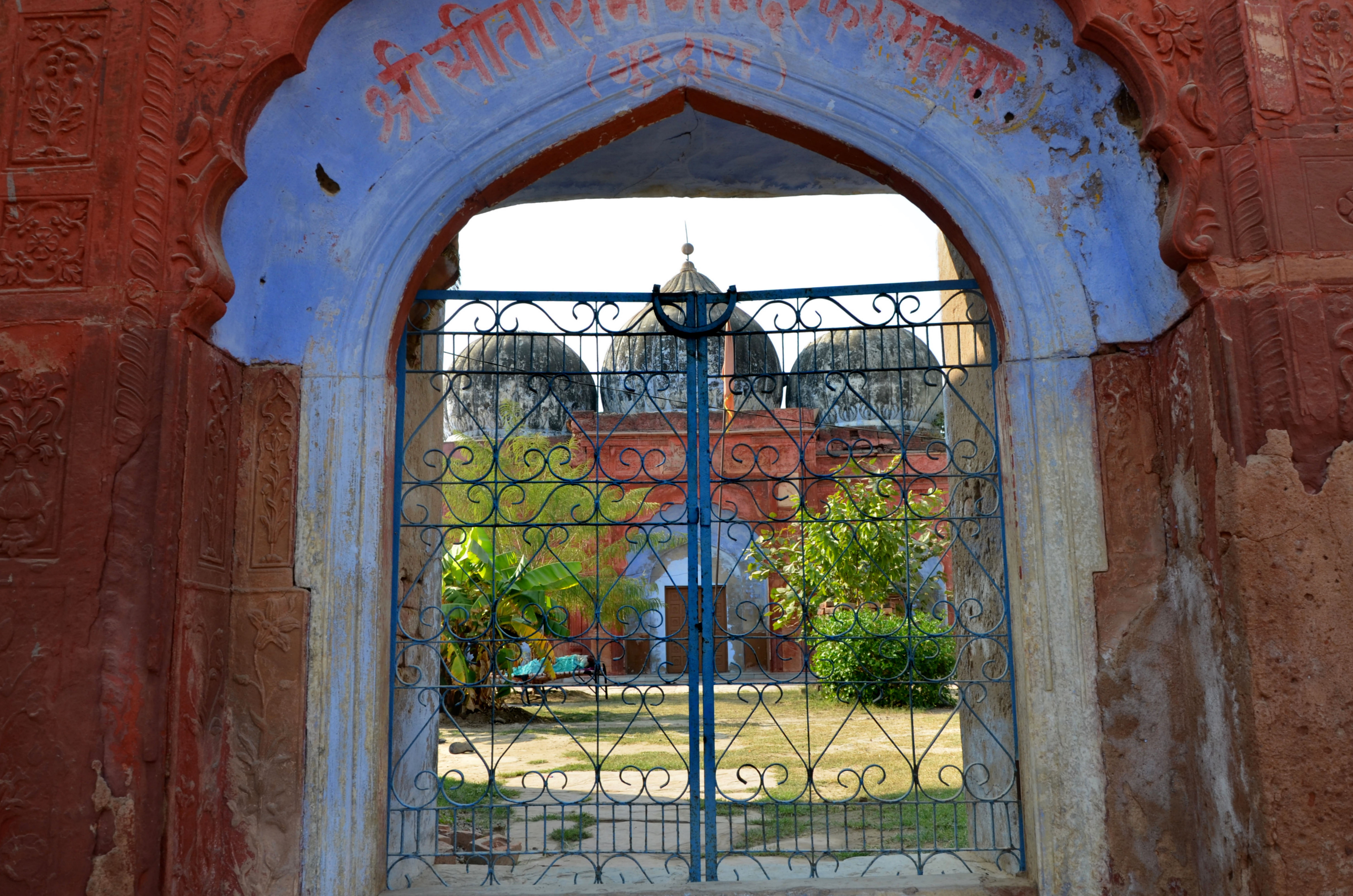 A former mosque now Sitaram Mandir-Gurdwara, Farrukhnagar, Haryana.